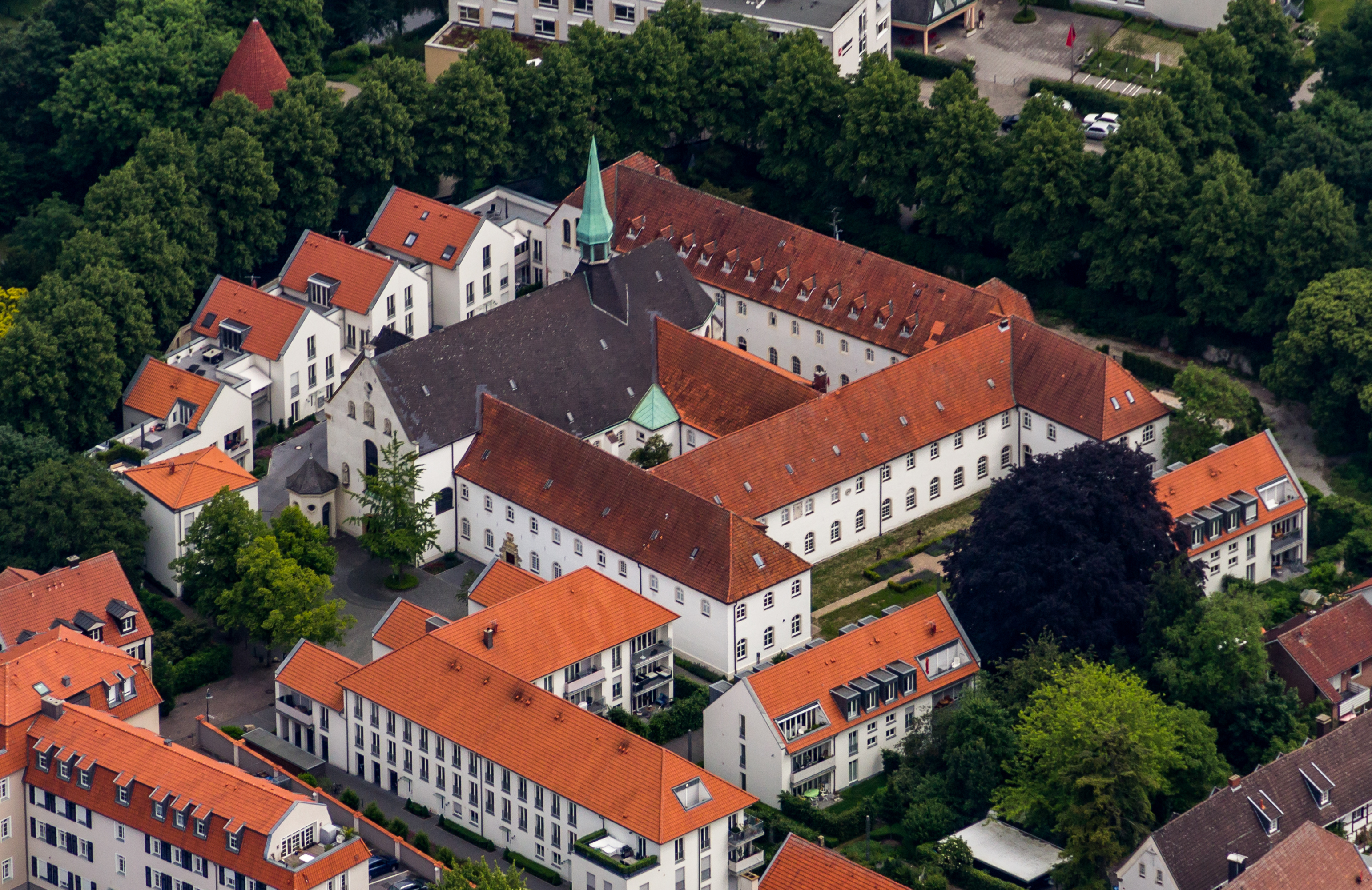 Franciscan Monastery, Warendorf, North Rhine-Westphalia, Germany